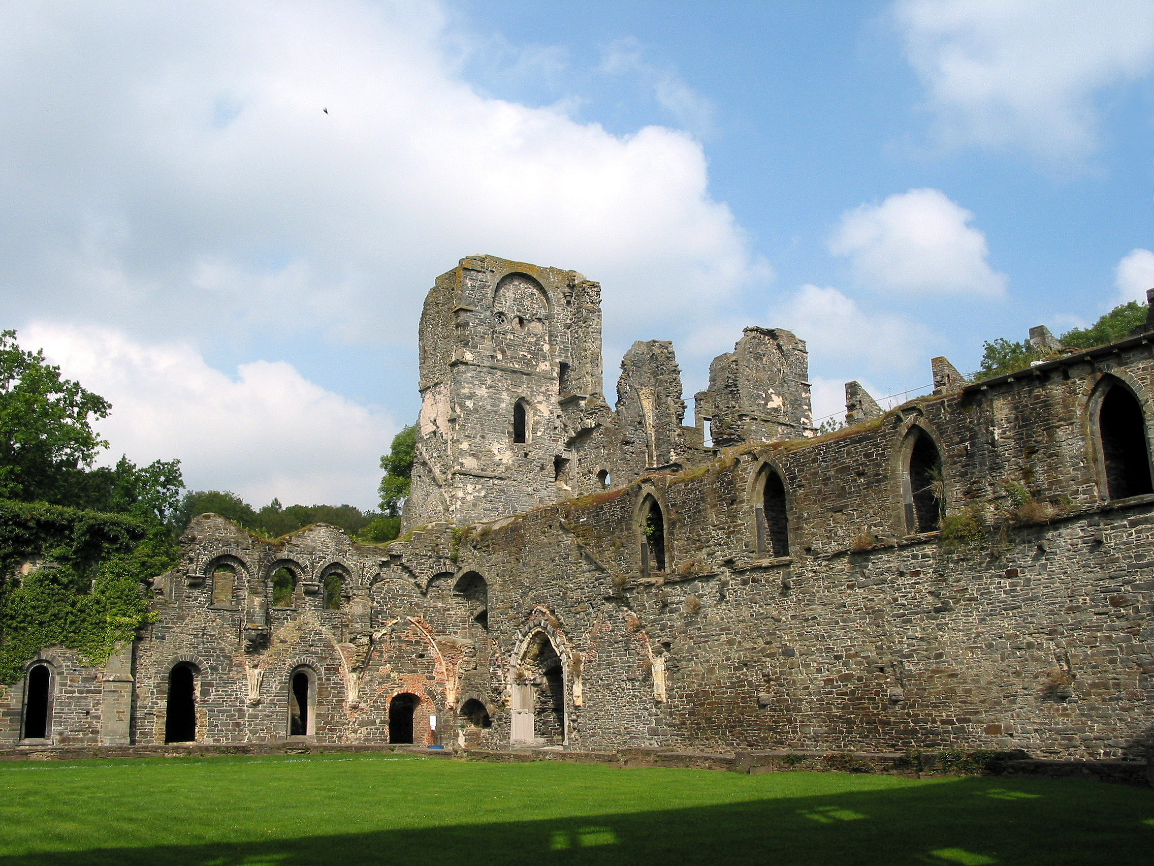 Villers-la-Ville (Belgium), ruins of the lay brothers' wing, southern wall and towers of the abbey church (XII/XIIIth century).